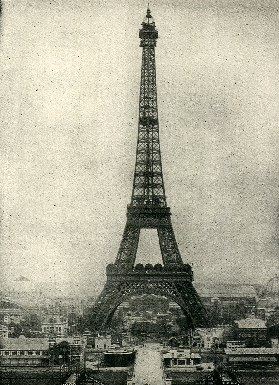 Paris, Tour Eiffel, c. 1890 Original caption: “EIFFEL TOWER, PARIS, FRANCE. -- This enormous monument surpasses anything of the kind hitherto erected. From all parts of the city its graceful head may be seen, competely dwarfing into insignificance every public building and spire that Paris contains. It has three platforms. The first, of vast extent and comfortably arranged for many hundred vistors at a time, contains cafés and restaurants. The second is 376 feet from the ground, and the third, 863 feet. The total height of the Tower is 985 feet, being the loftiest monument in the world.”